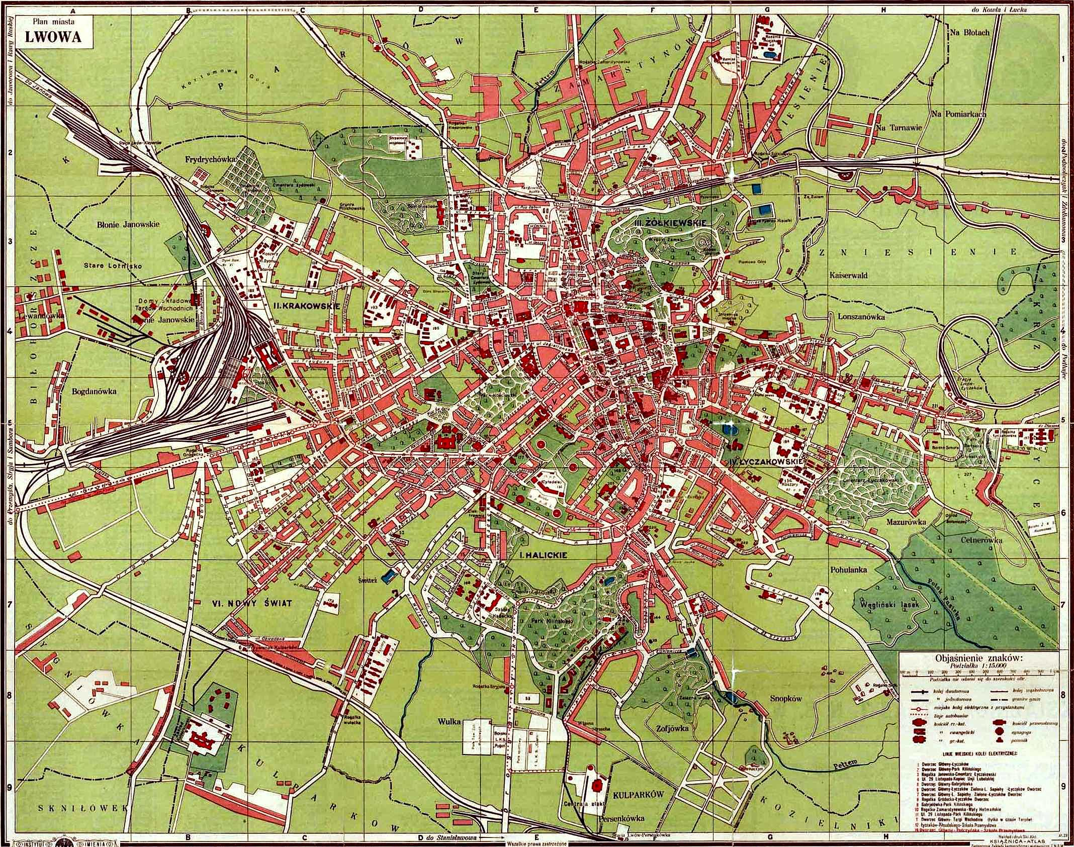 Lviv, city plan, Lwów 1923